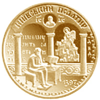 Coin of Ukraine